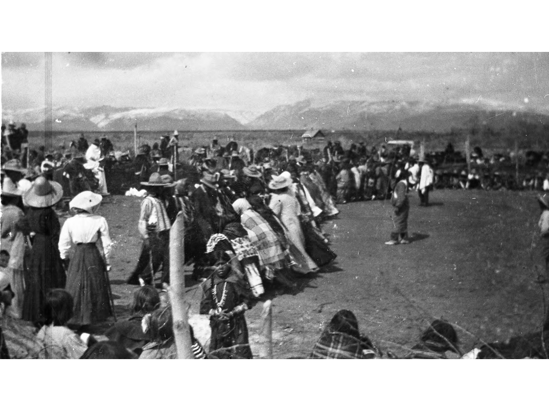 A group of Ute Indians as they participate in their bear dance. The Dance leader starting the dance.